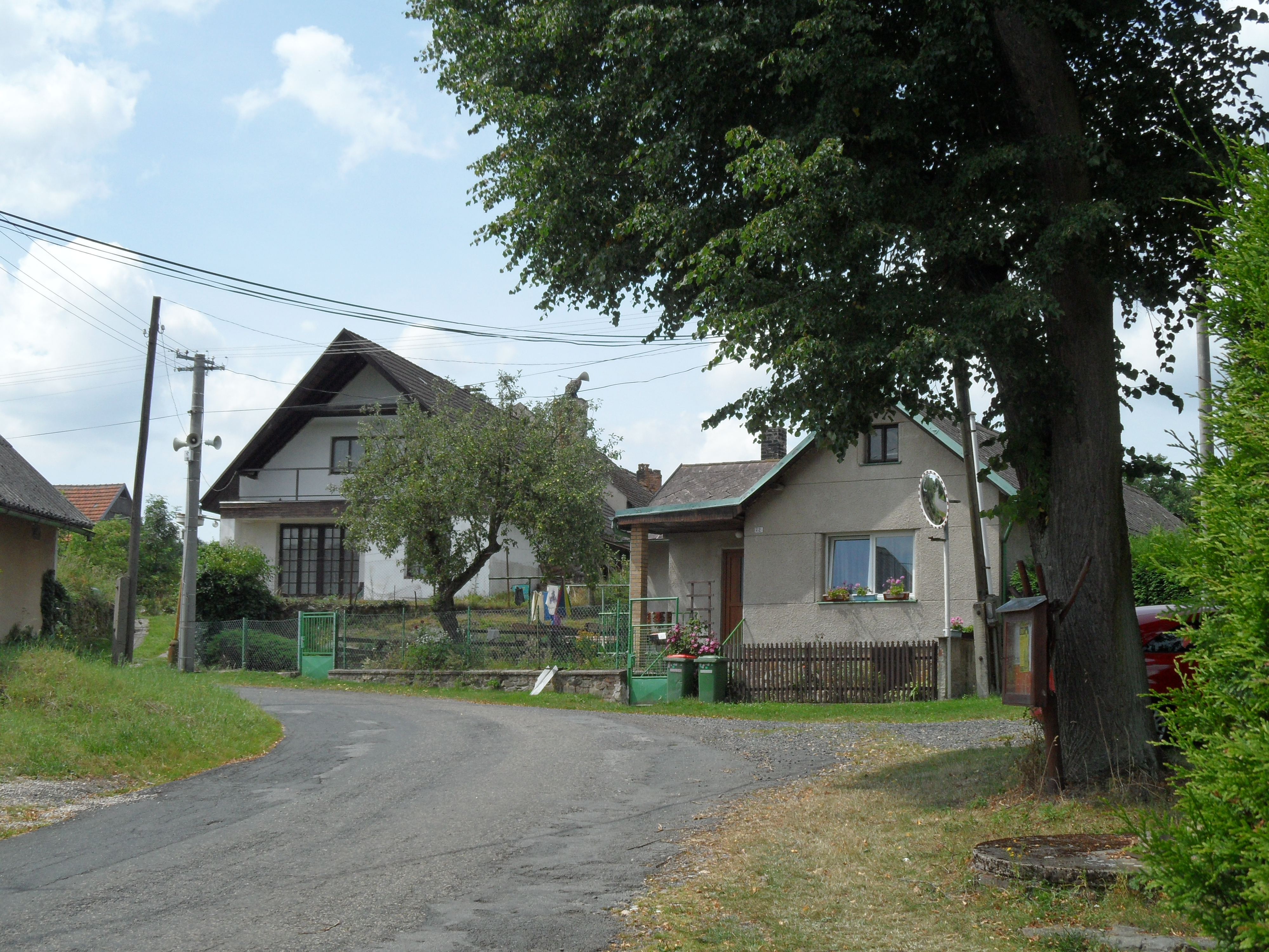 Všesoky C. Houses at Bend (Direction to Vernýřov), Kutná Hora District, the Czech Republic.